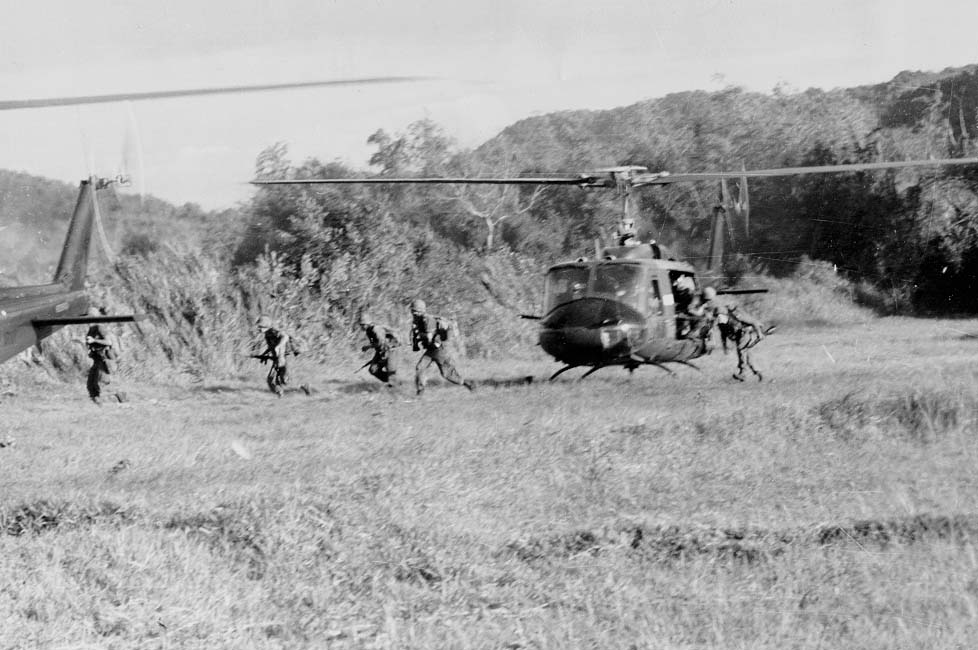 Soldiers of the U.S. Amry 1/7th Cavalry disembark from a Bell UH-1D Huey at LZ X-Ray during the battle of Ia Drang.